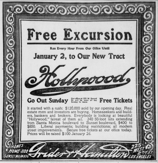 Advertisement for Hollywood, land sales, 1908, as published in the Los Angeles Herald of January 1, 1908